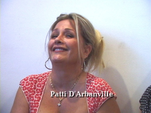 Patti D'Arbanville reading from Pamela Des Barres book 'Let's Spend the Night Together: Backstage Secrets of Rock Muses and Supergroupies' at Soho McNally Robinson NYC